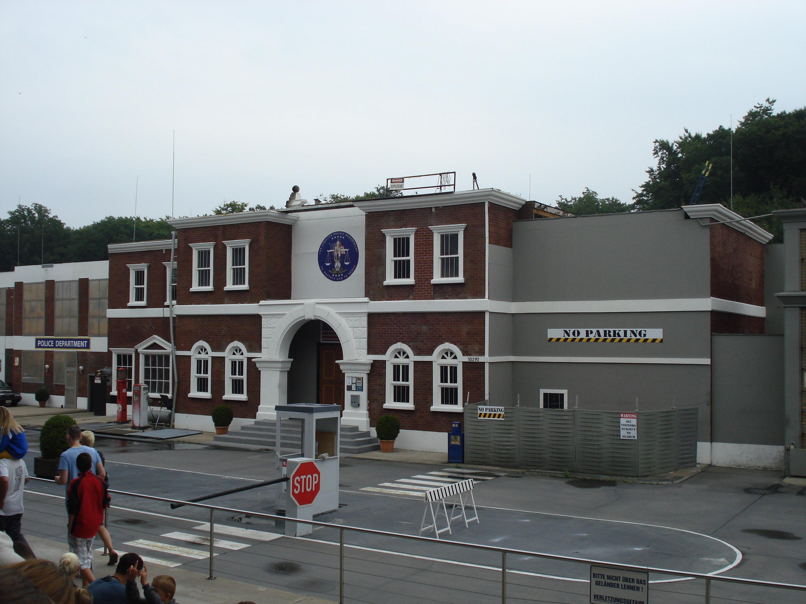 Stunt Show